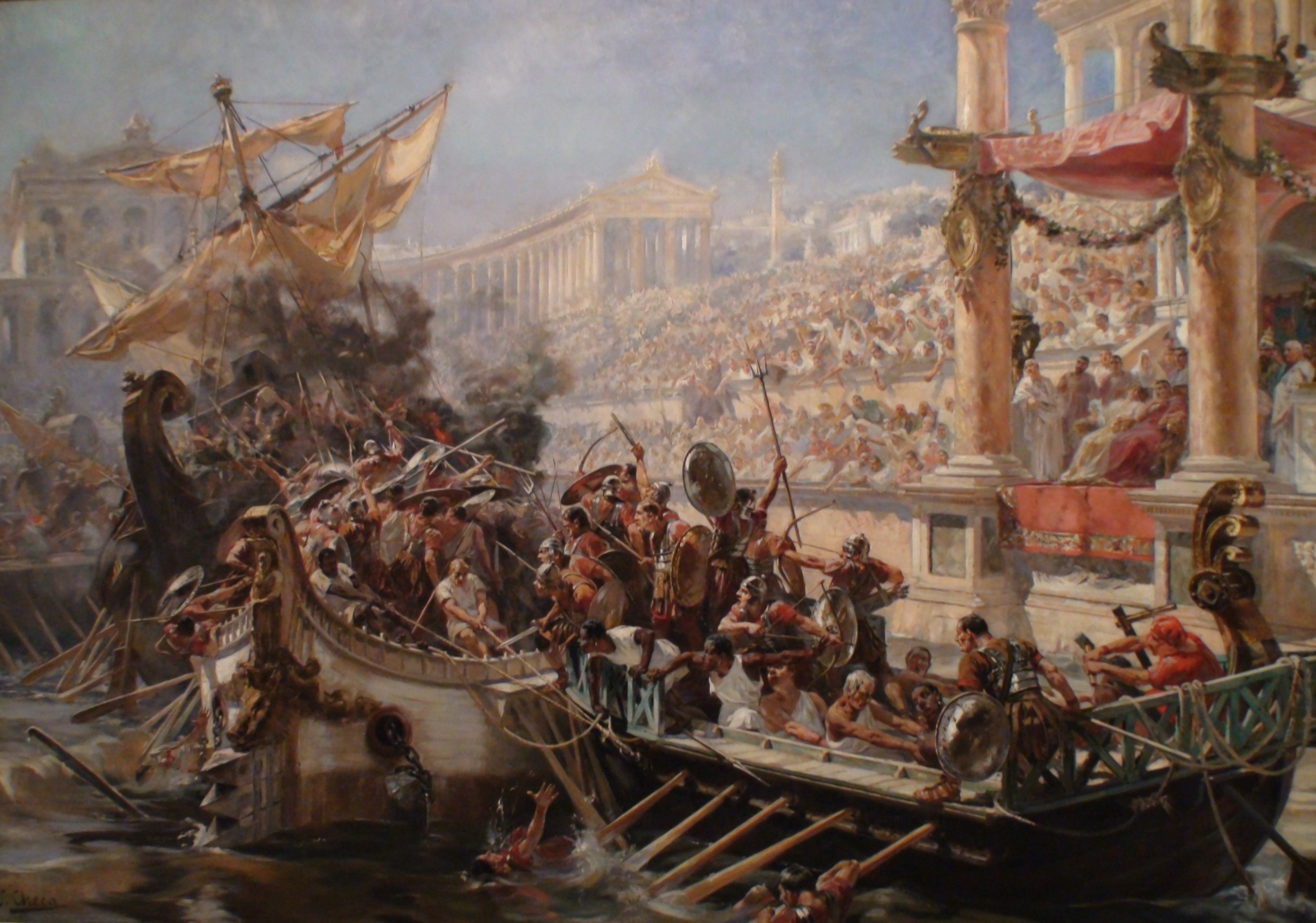 The naumaquia (Naval battle between Romans). Oil on canvas, 125.6 x 200.5 cm. This work was presented at the National Society of Fine Arts in Paris, 1894. He received the gold medal at the International Exposition in Atlanta in 1895. Painter: Ulpiano Checa